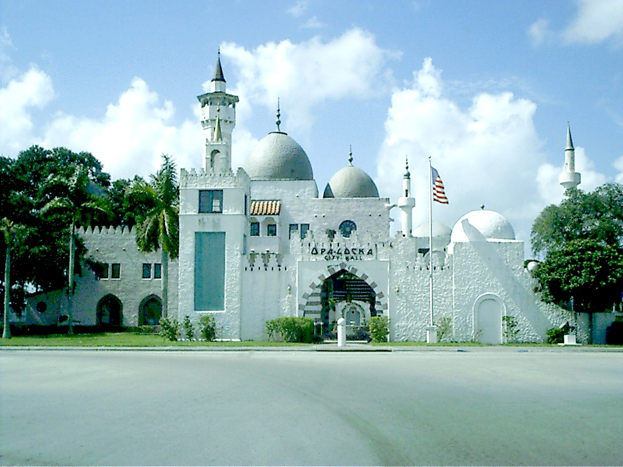 The city of Opa-locka's city hall.